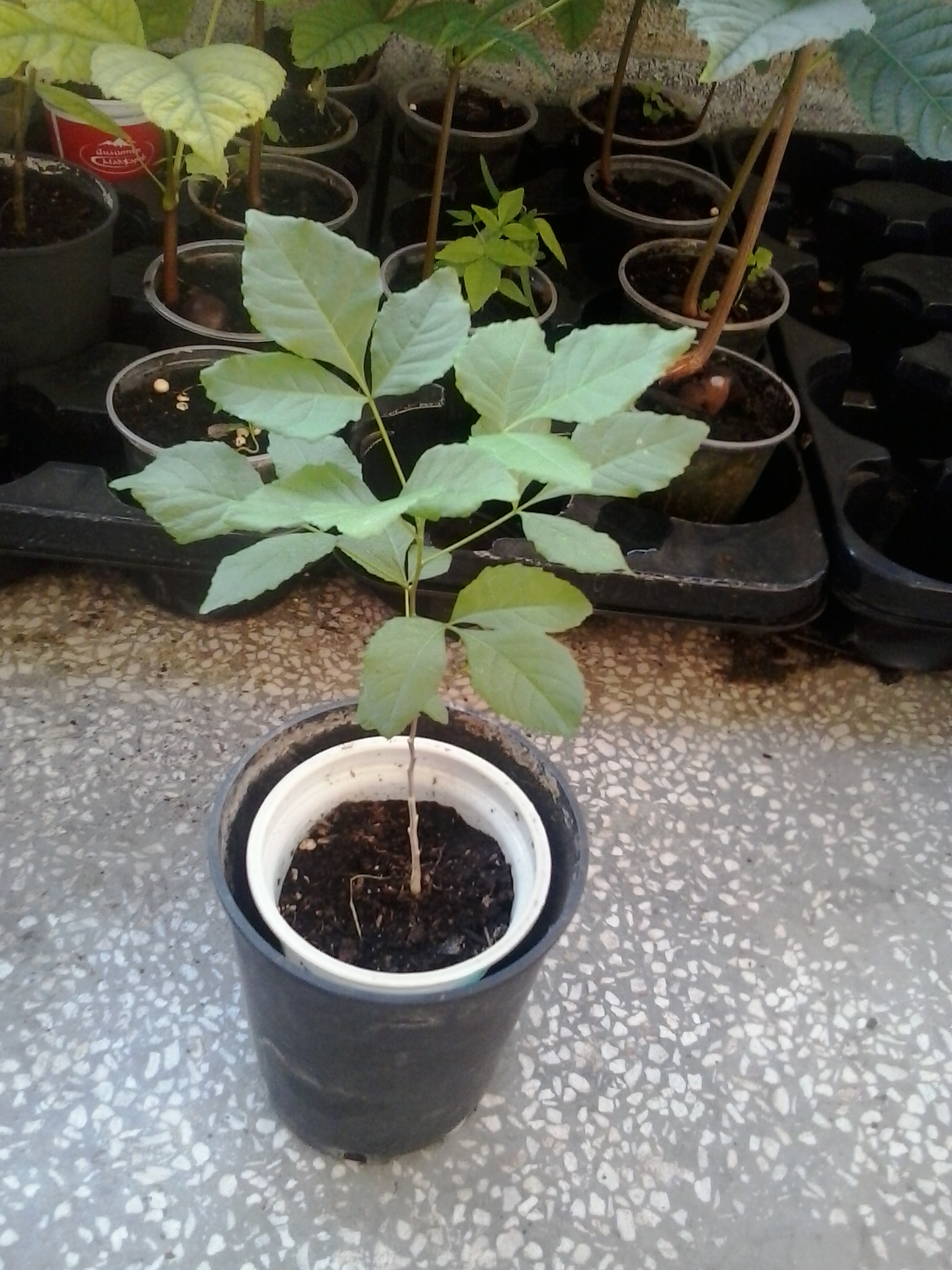 Two years old sapling grown from seed